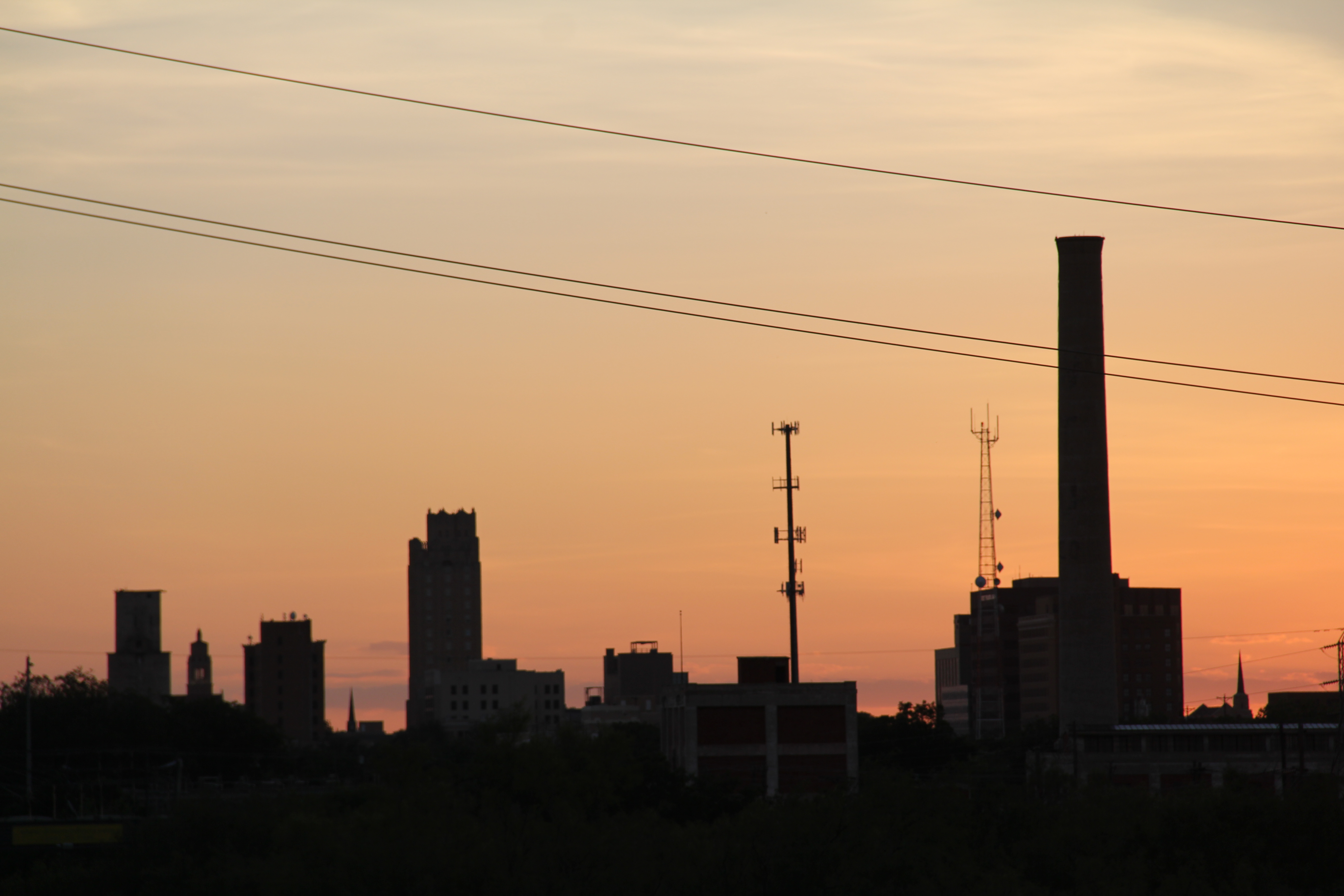 A photo of downtown Abilene, Texas at sunset.